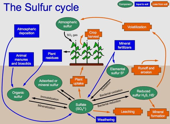 Own work